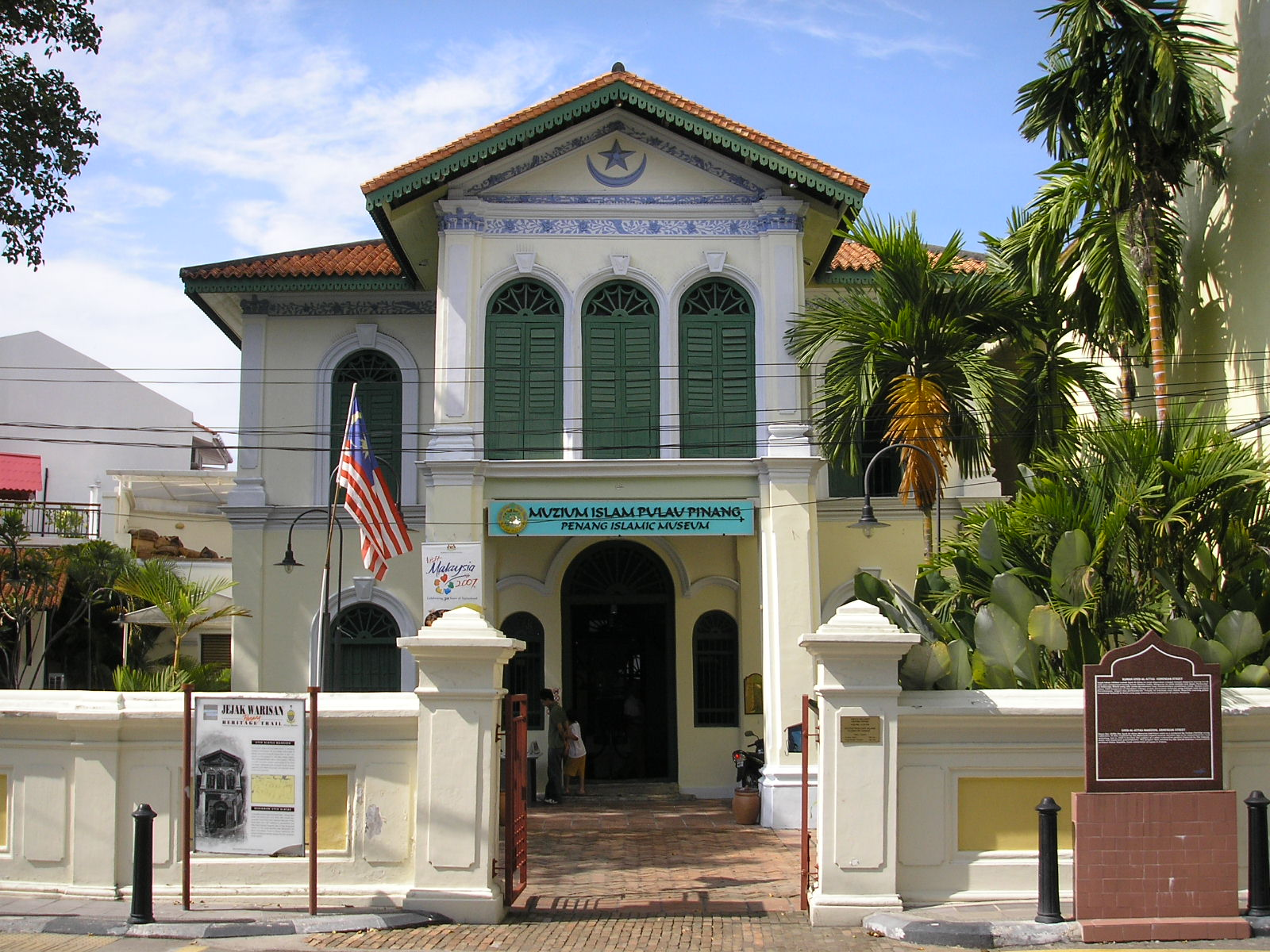 Image of the Islamic Museum in George Town, Penang.